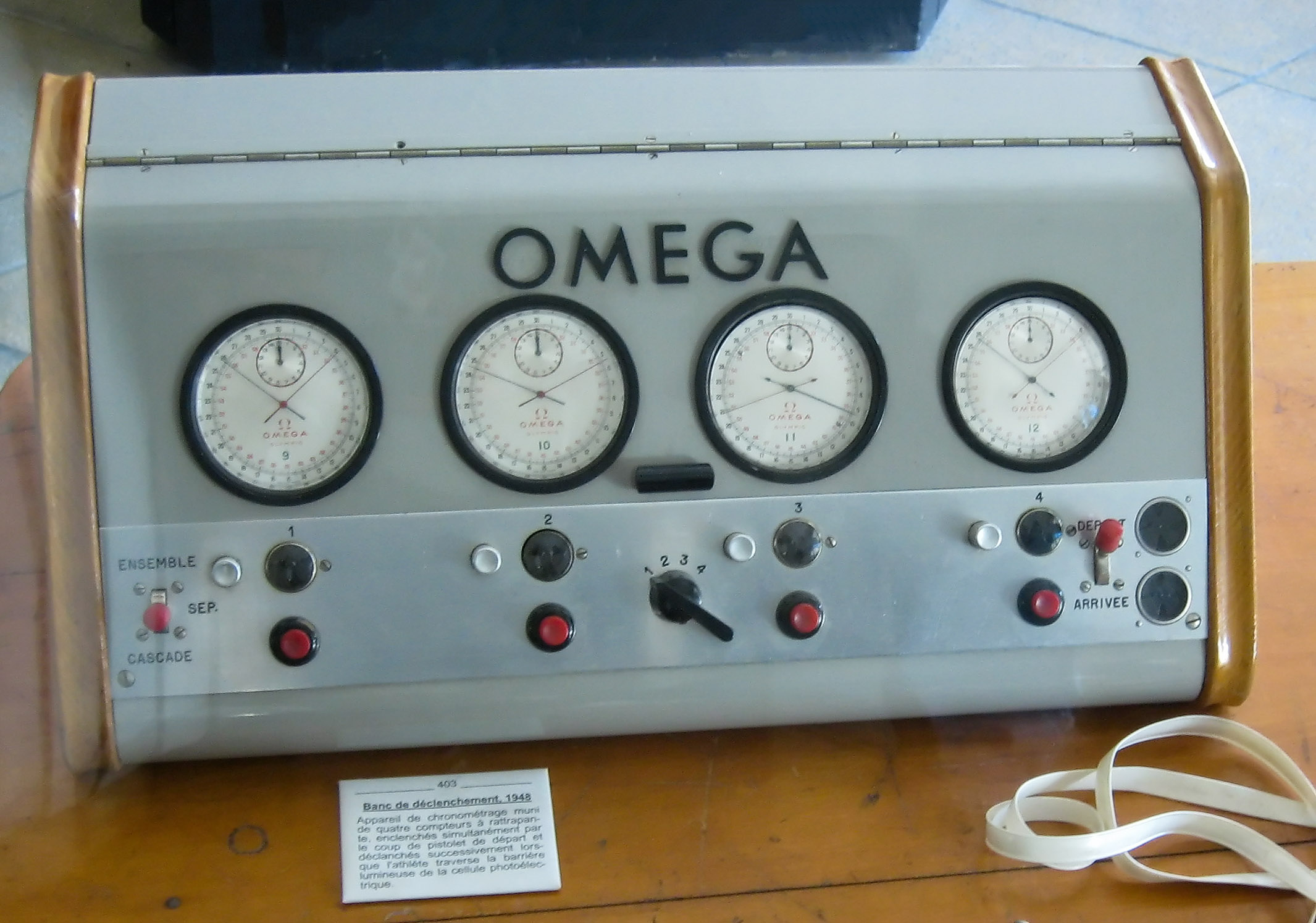 Fully automatic time device by Omega, 1948. This system contains four separate chronometers triggered by starting guns and stopped by a photo cell. Exhibit in the Omega Uhrenmuseum, Switzerland.